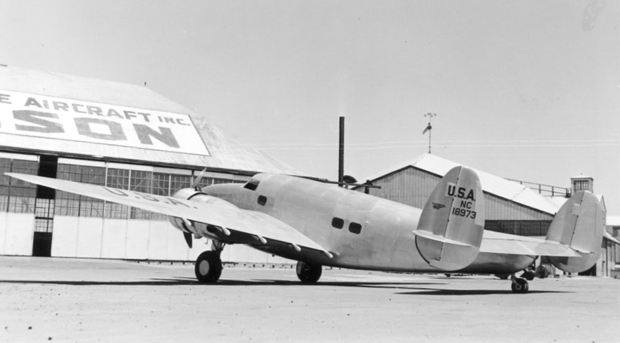 Howard Hughes round-the-world flight Lockheed at Alameda in 1940.